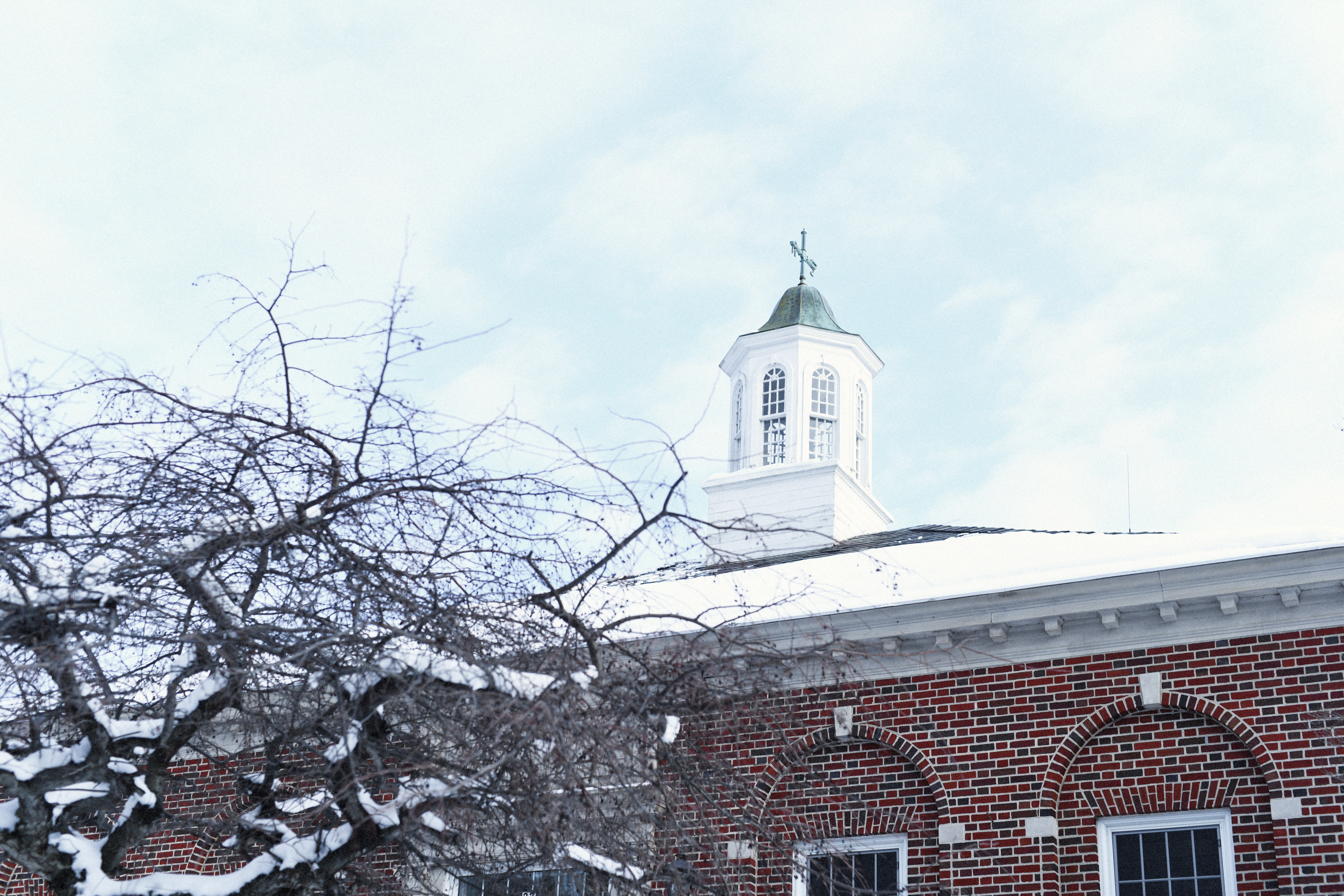 Easton Town Hall exterior, winter 2016.